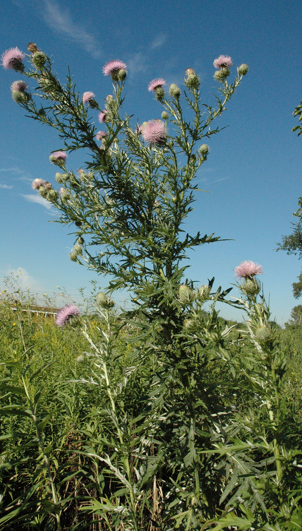 Cirsium discolor at the James Woodworth Prairie Preserve